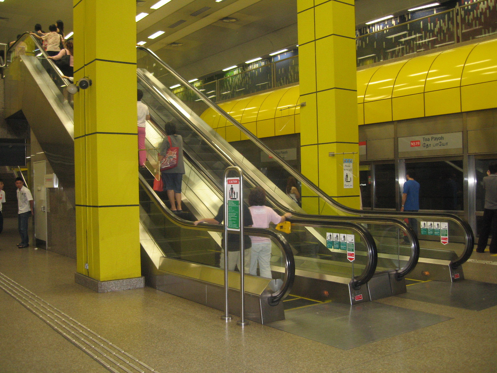 Toa Payoh MRT Station.